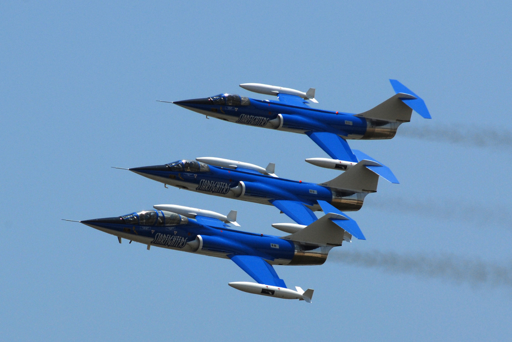 The aerial acrobatic team, the Starfighters, are the only civilian supersonic team in the world. They perform at a few airshows each year. This demonstration was at the 2008 Joint Services Open House (JOSH) at Andrew's Air Force Base in Maryland. The JOSH host the blue angels, Ragged Edge, Skytypers, and several other flight demonstrations.